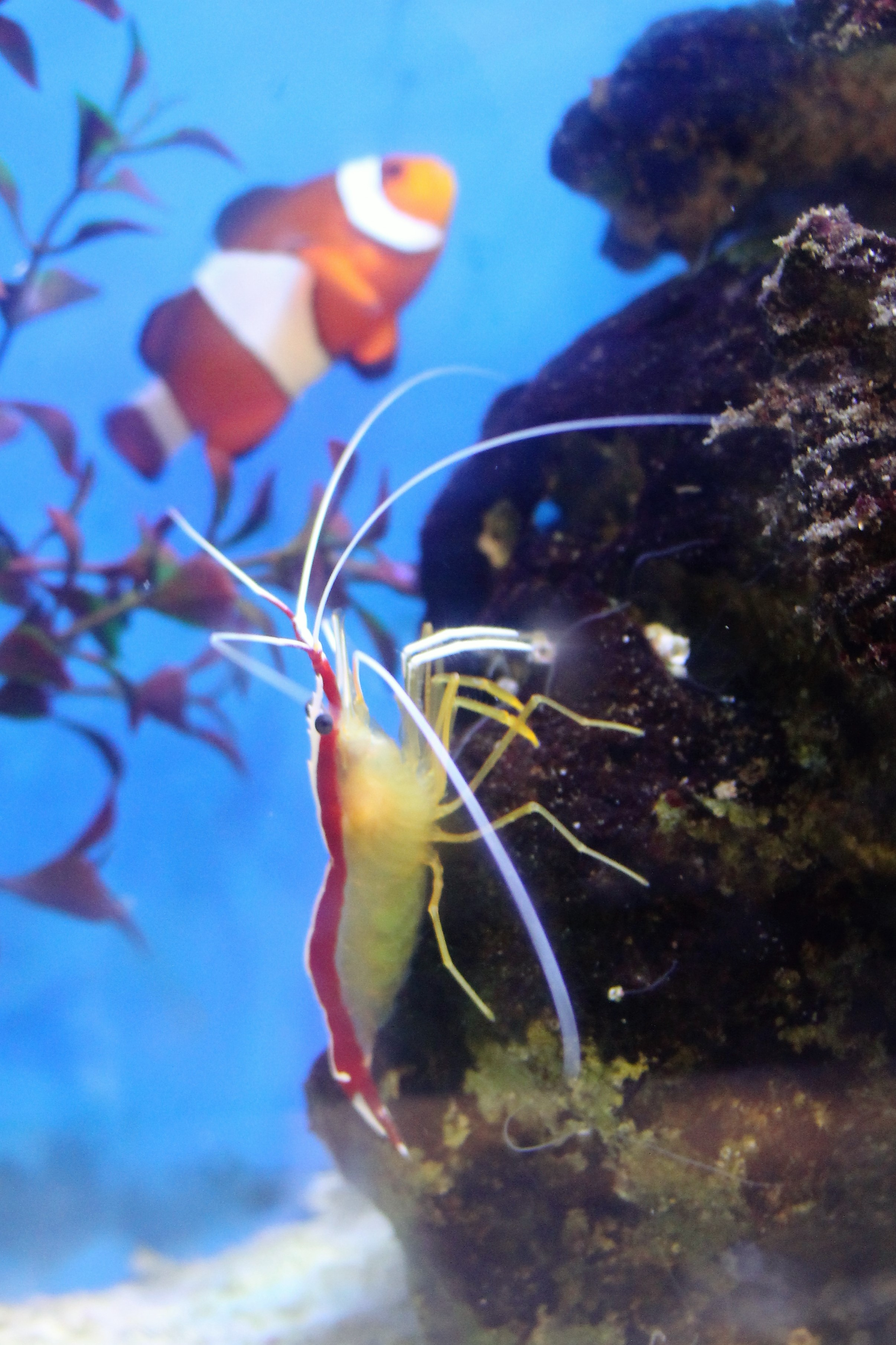 Pacific cleaner shrimp (Lysmata amboinensis) and an orange clownfish or clown anemonefish (Amphiprion percula) at the Scarborough SEA LIFE Sanctuary in England.